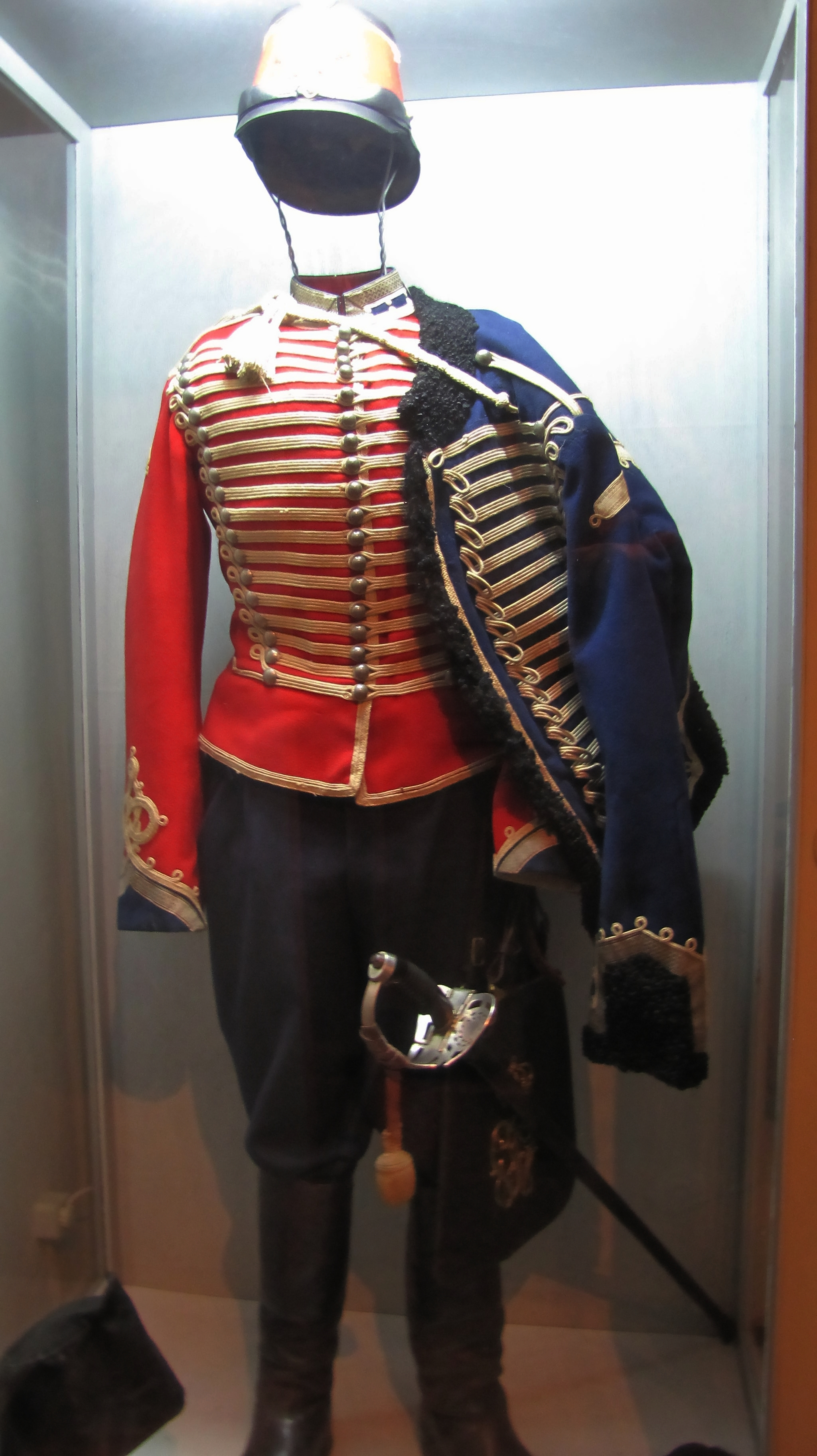 Uniform of Mecklenburg-Strelitzsche Districts-Husaren in the Volkskundemuseum Schönberg